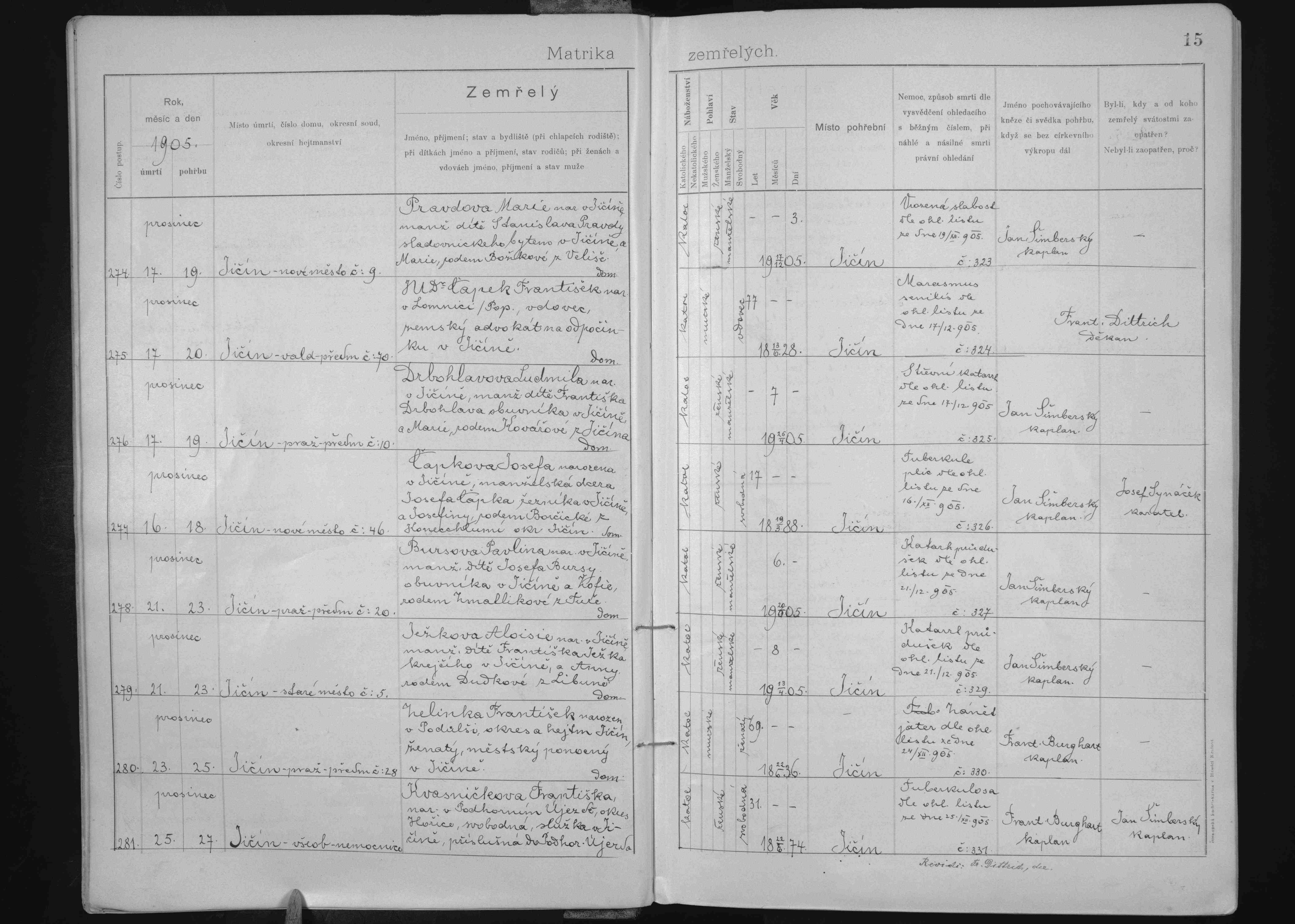 Page of a death register from Jičín (present-day Czech Republic) with a record of František Čapek (1828-1905), Czech politician.